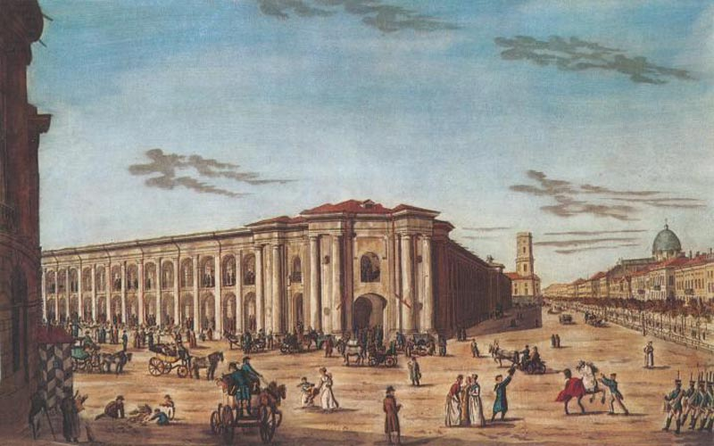 I.A.Ivanov. View of the Gostiny Dvor in Saint Petersburg (1815).